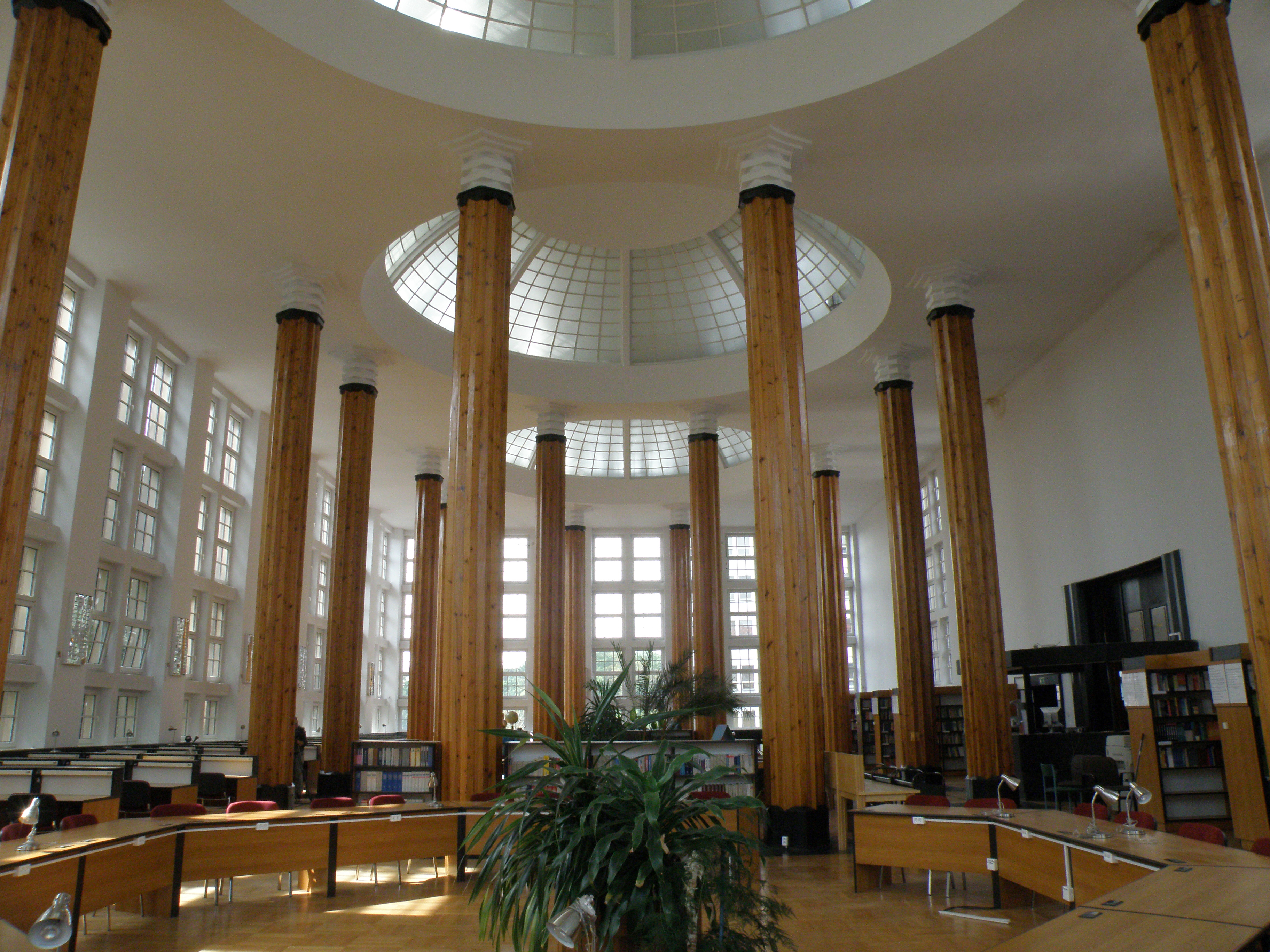 SGH Pavilion of Library - reading-room